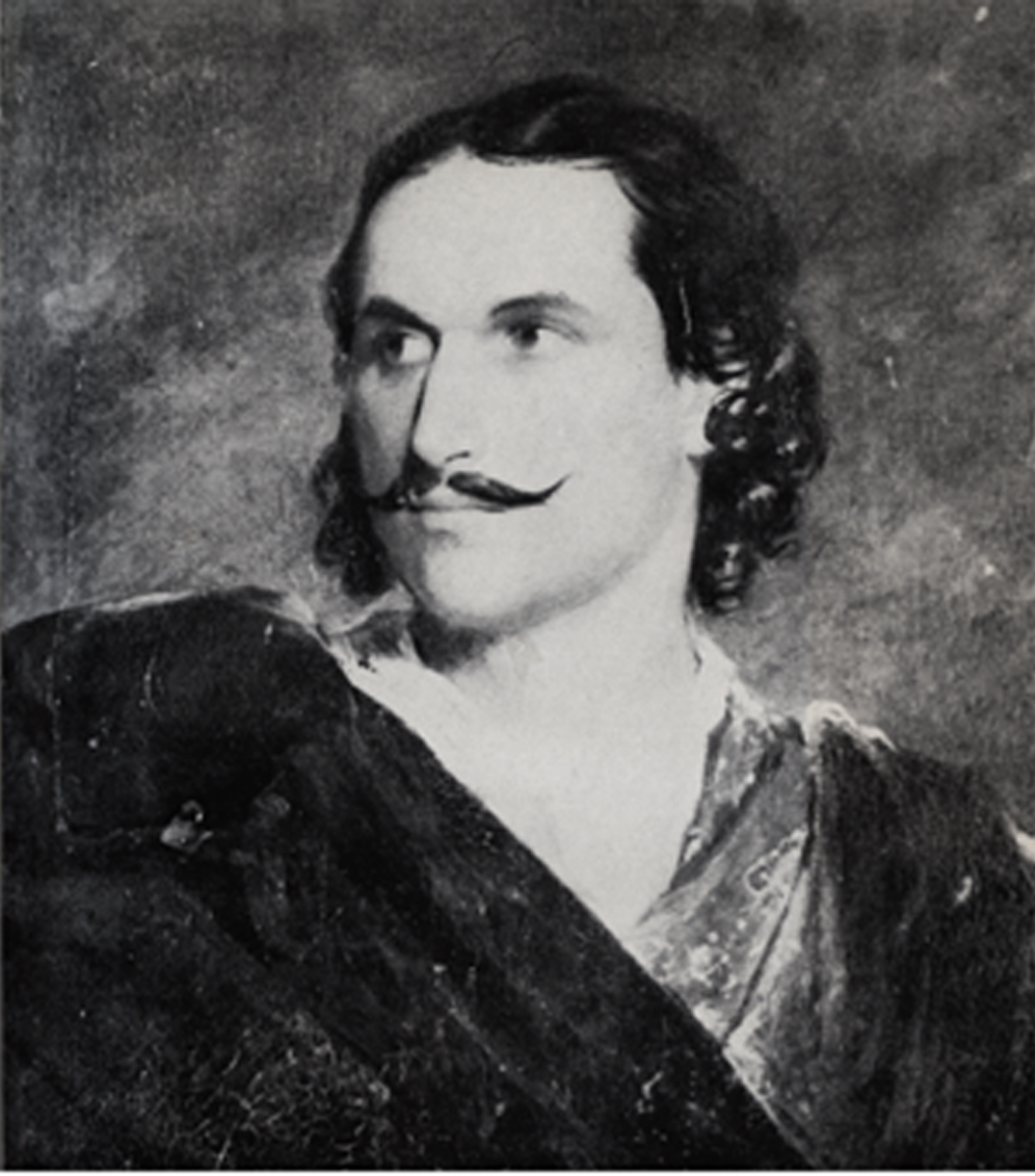 Painting by West